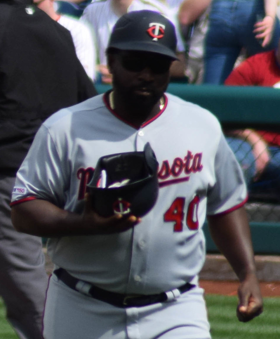 Max Kepler and Tommy Watkins of the Minnesota Twins walk off the field during a 2019 game at Citizens Bank Park in Philadelphia